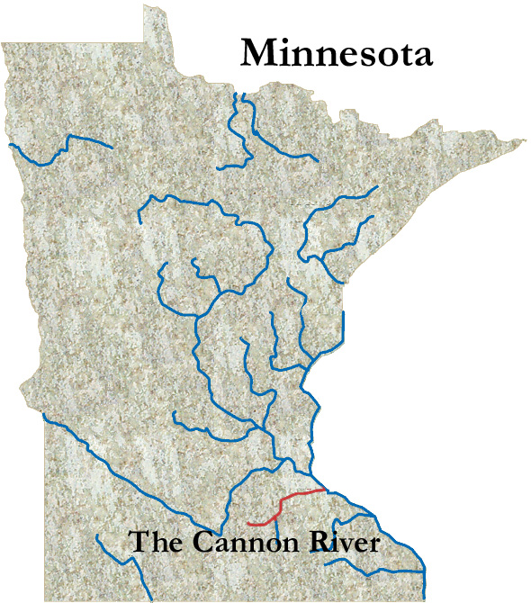 Map of Minnesota, showing the Cannon River